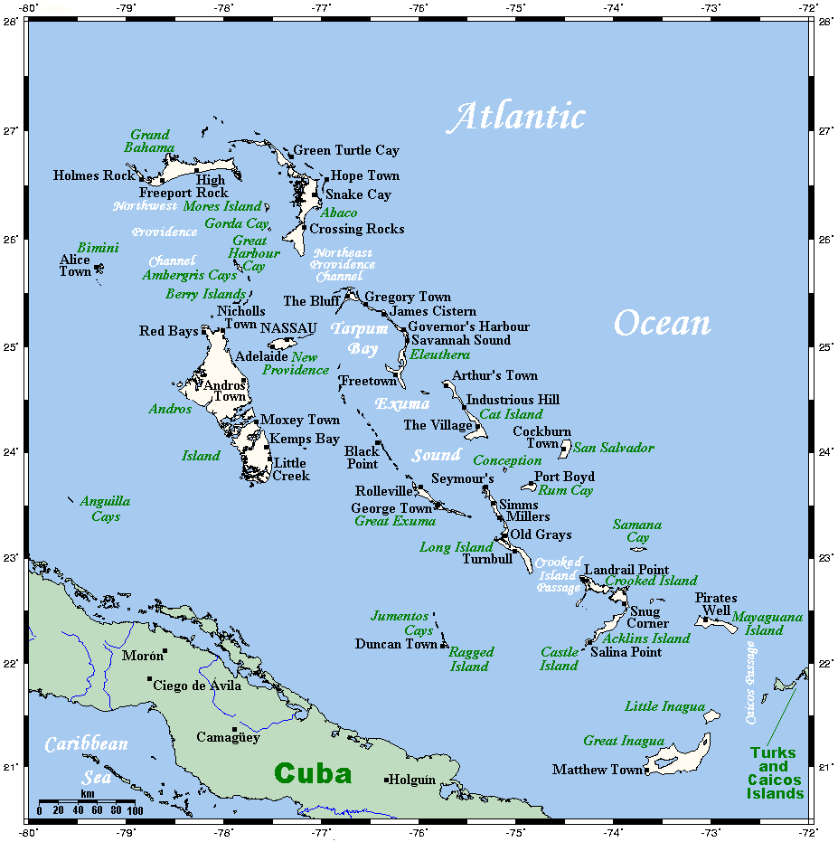 A map showing the Bahamas' cities and main towns. This map's source is here, with the uploader's modifications, and the GMT homepage says that the tools are released under the GNU General Public License.